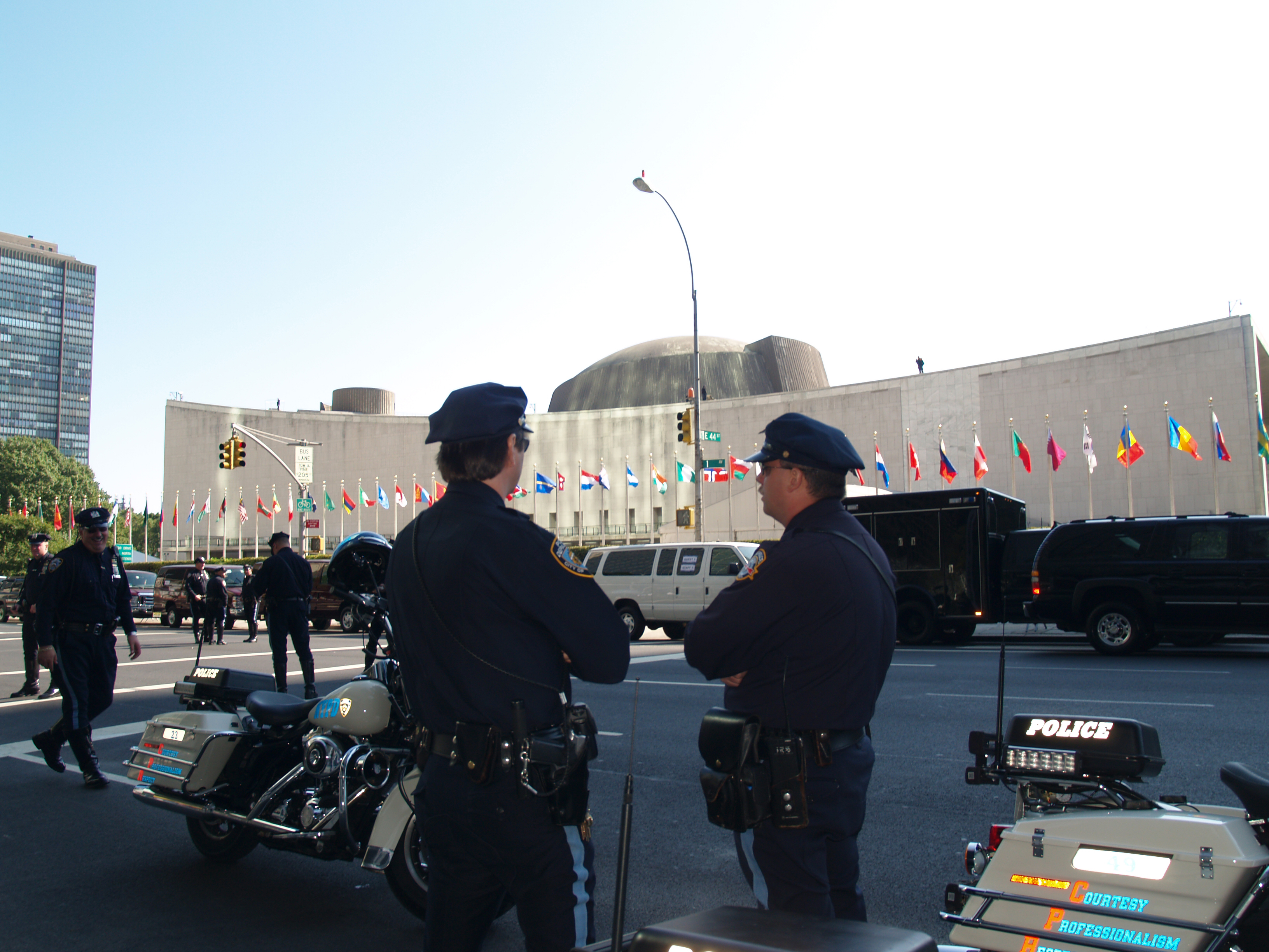 Protests outside of the United Nations in New York City when Mahmoud Ahmadinejad addressed the governing body at the end of his first term as President of Iran.